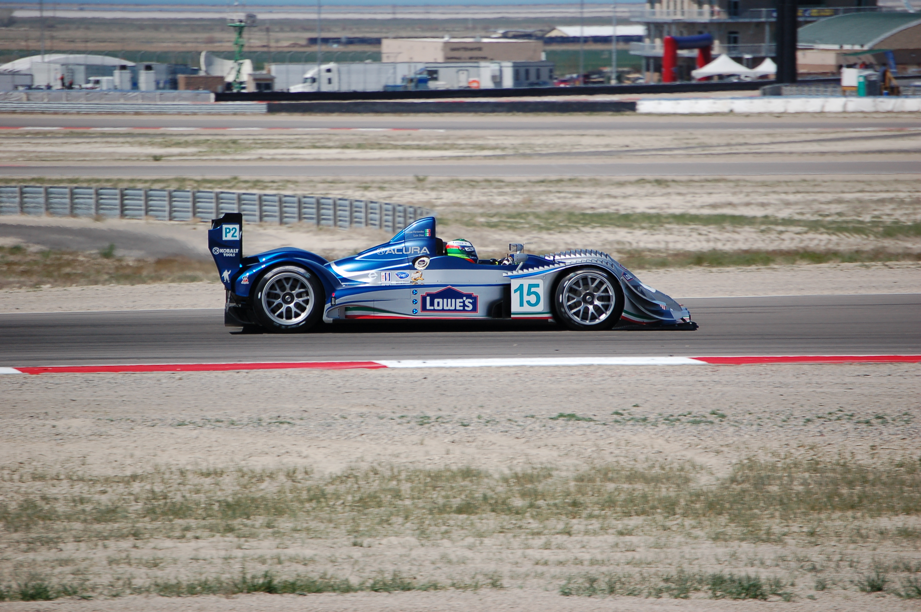 Lowe's Fernandez Racing's Acura ARX-01B at the 2008 Utah Grand Prix